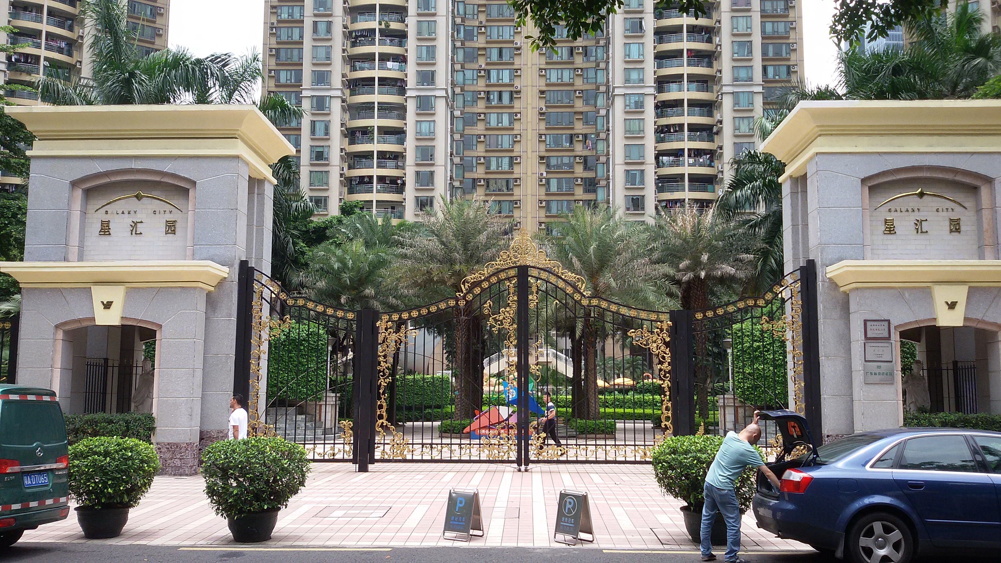 GALAXY CITY in Zhujiang New Town, Guangzhou.